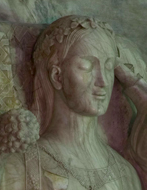 Martha of Armagnac